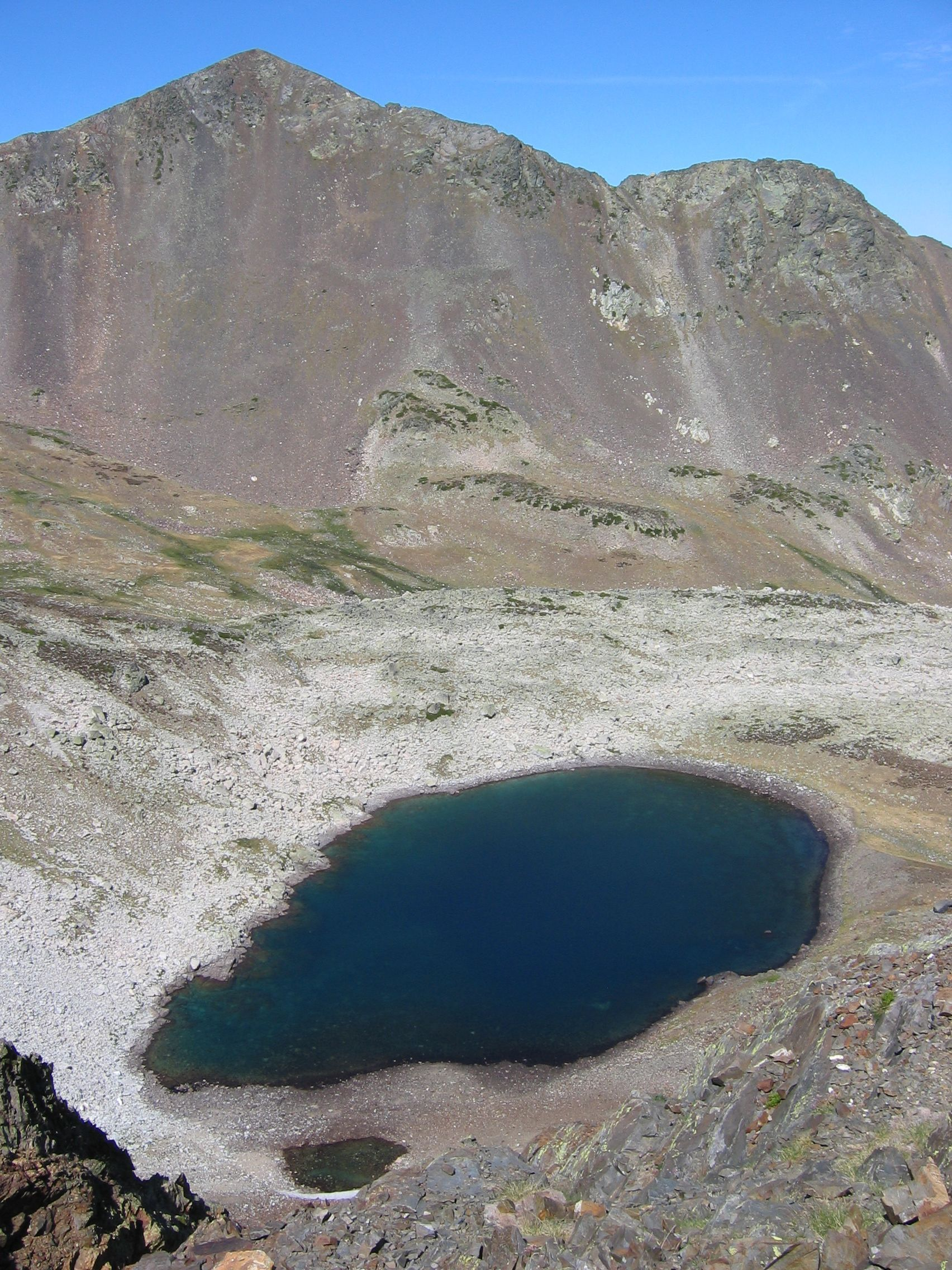 Fuentes Carrionas lagoon, and behind it, Peña Prieta (Palencia, Castile and León).